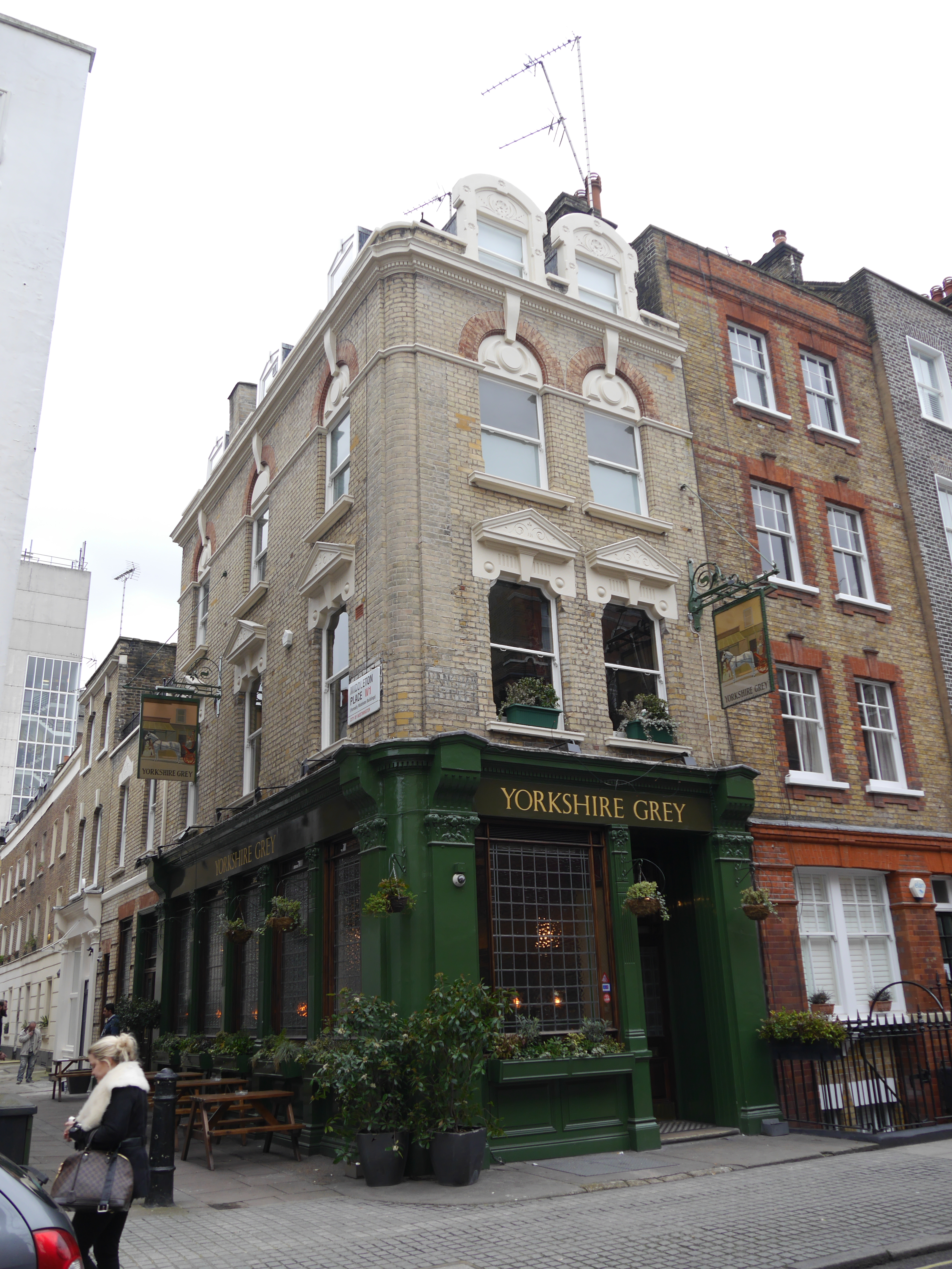 Yorkshire Grey, Theobald's Road, March 2016